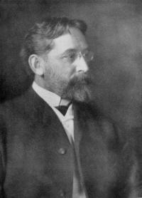 Oliver Dennett Grover, from a photograph reproduced in Arthur Nicholas Hosking, “Oliver Dennett Grover, Painter,” The Sketch Book 5 (Sept. 1905).